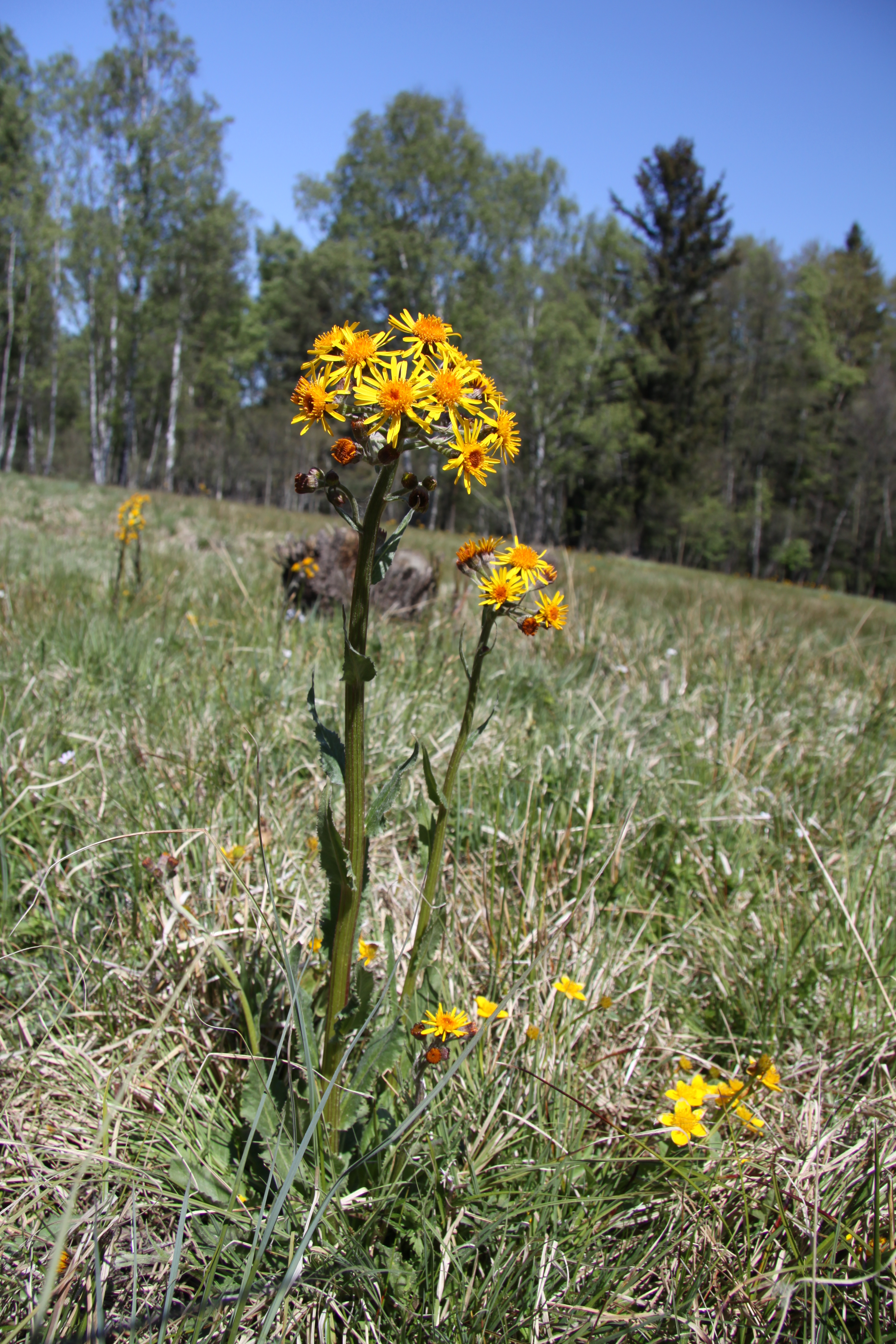 Tephroseris crispa. Natural monument Podhájí near Vacov village in Prachatice District, Czech Republic - Google Maps - Google Earth